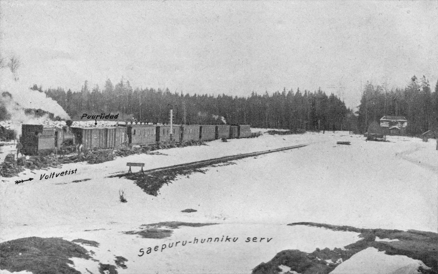 The site of the battle of Punapargi. German forces moved by road along the treeline from left to right.